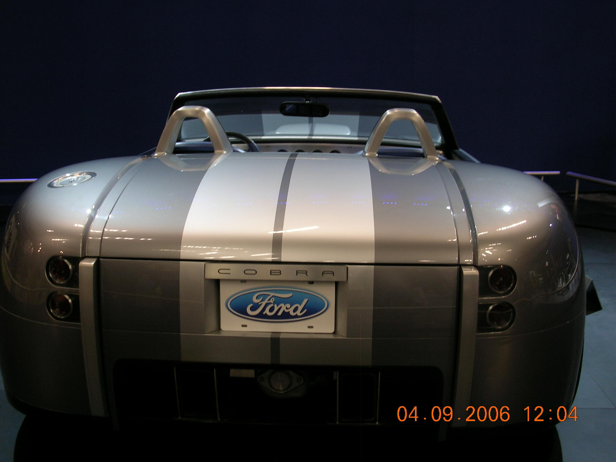 Picture taken in Vancouver Auto Show 2006.